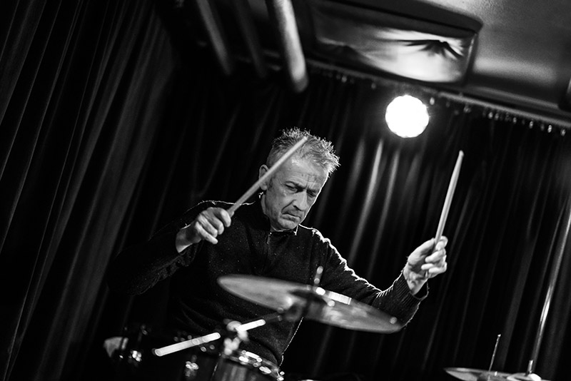 Steve Noble in Aarhus Denmark 2018